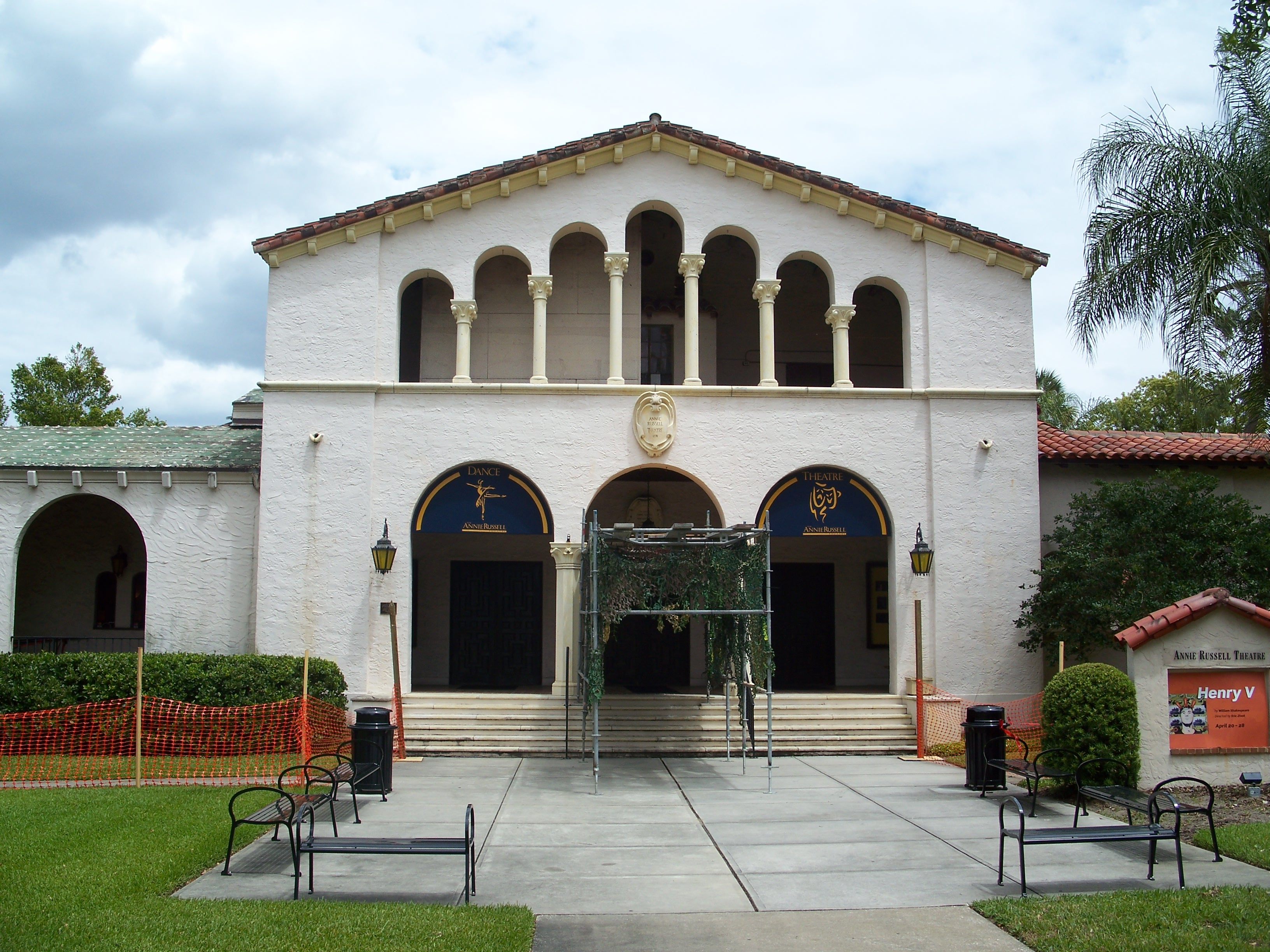 Annie Russell Theatre, on the Rollins College campus in Winter Park, Florida